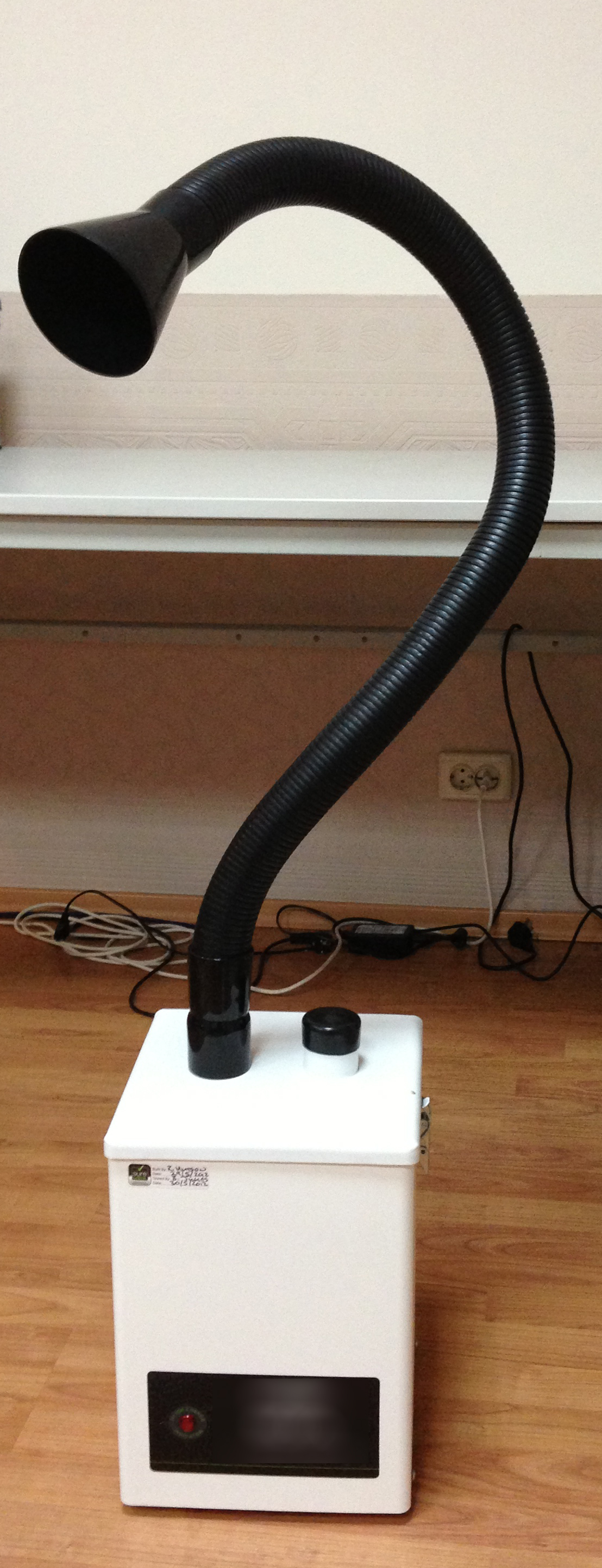 Fume extractor